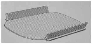 Print of John C. Babcock's sliding-seat invention